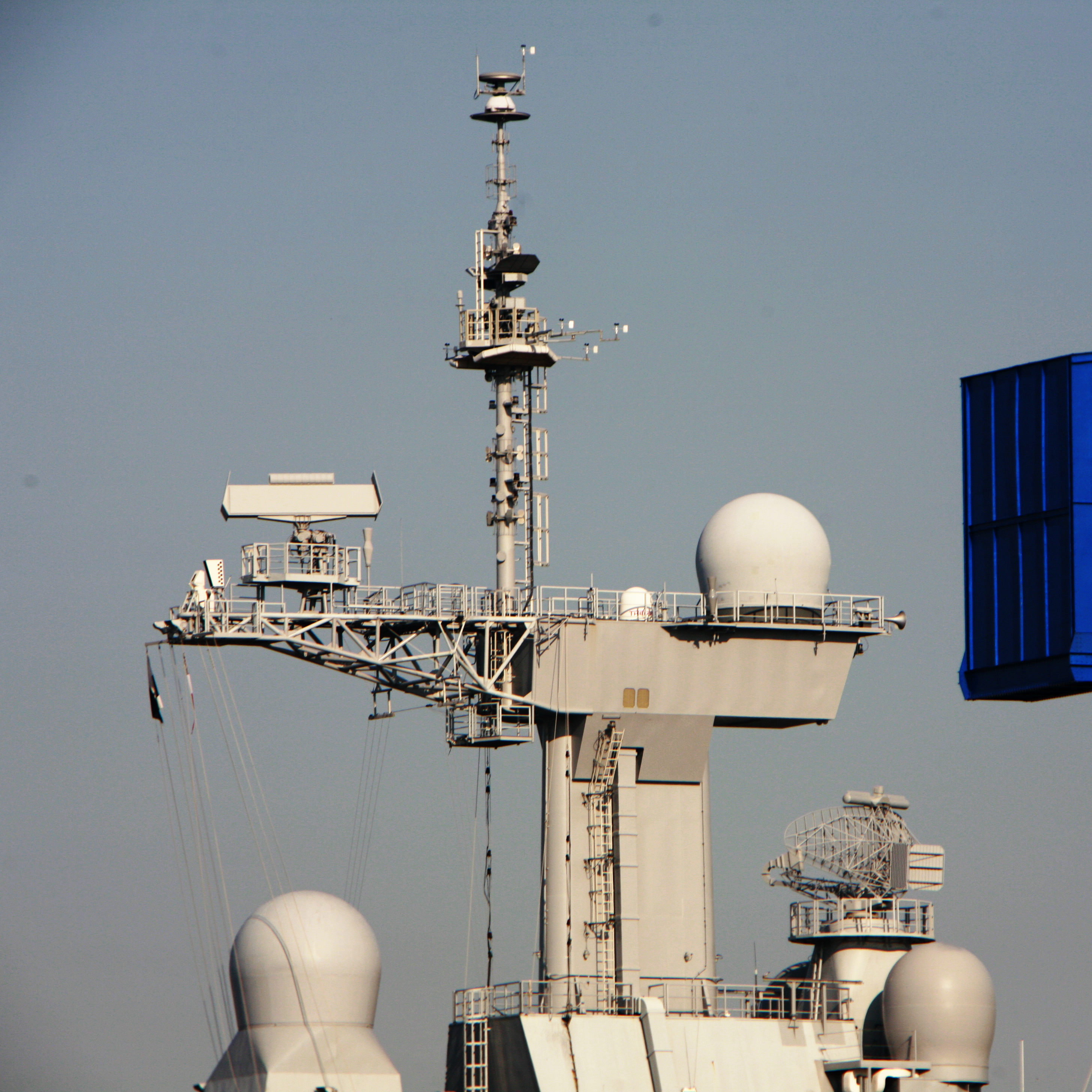 French nuclear aircraft carrier Charles De Gaulle (R 91) moored in Toulon harbour. Charles De Gaulle is presently immobilised due to vibration problems in her engine, that prevented her from taking part in the celebration of the 8th of May 2009.